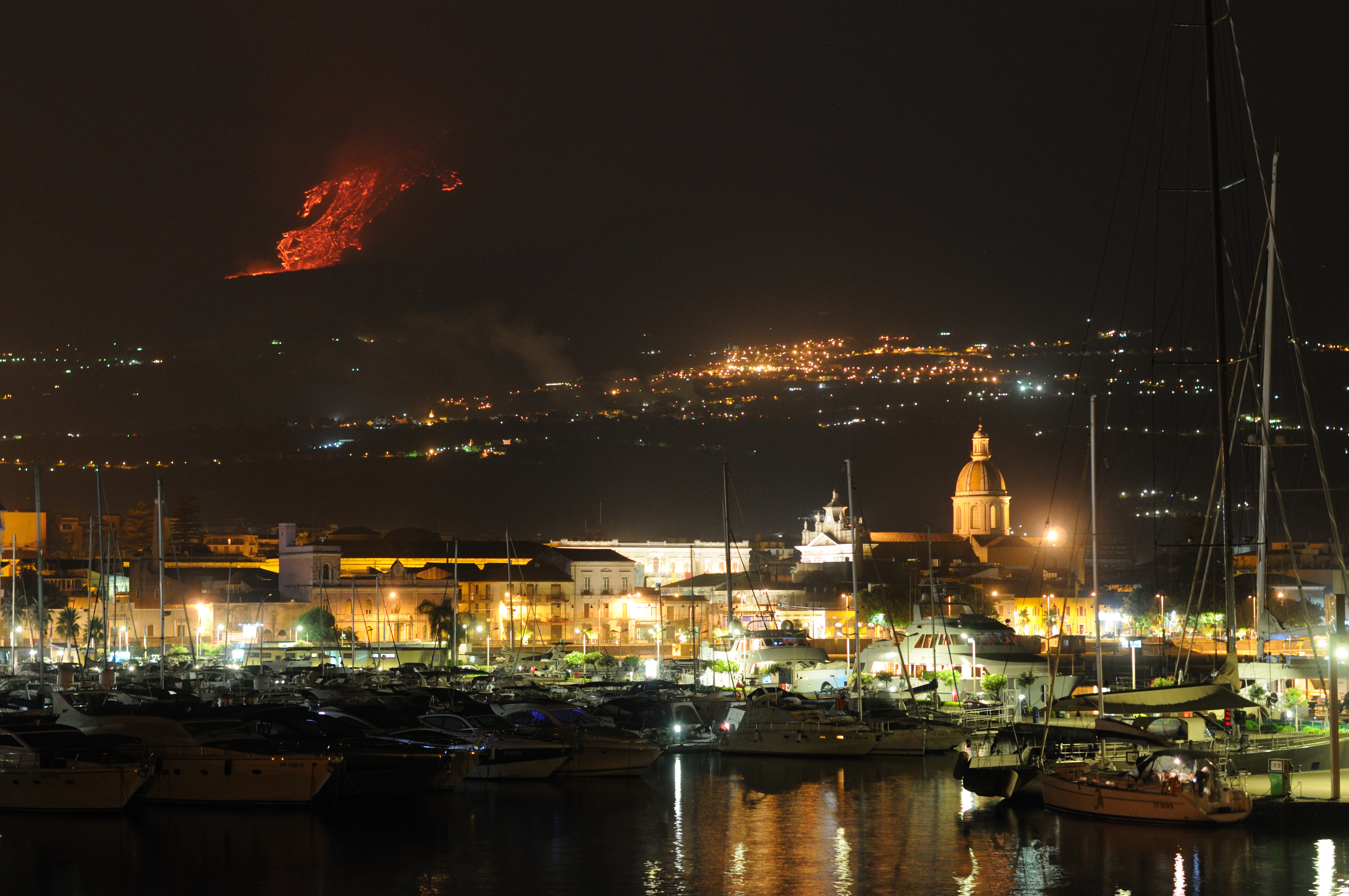 Mount Etna, Sicily